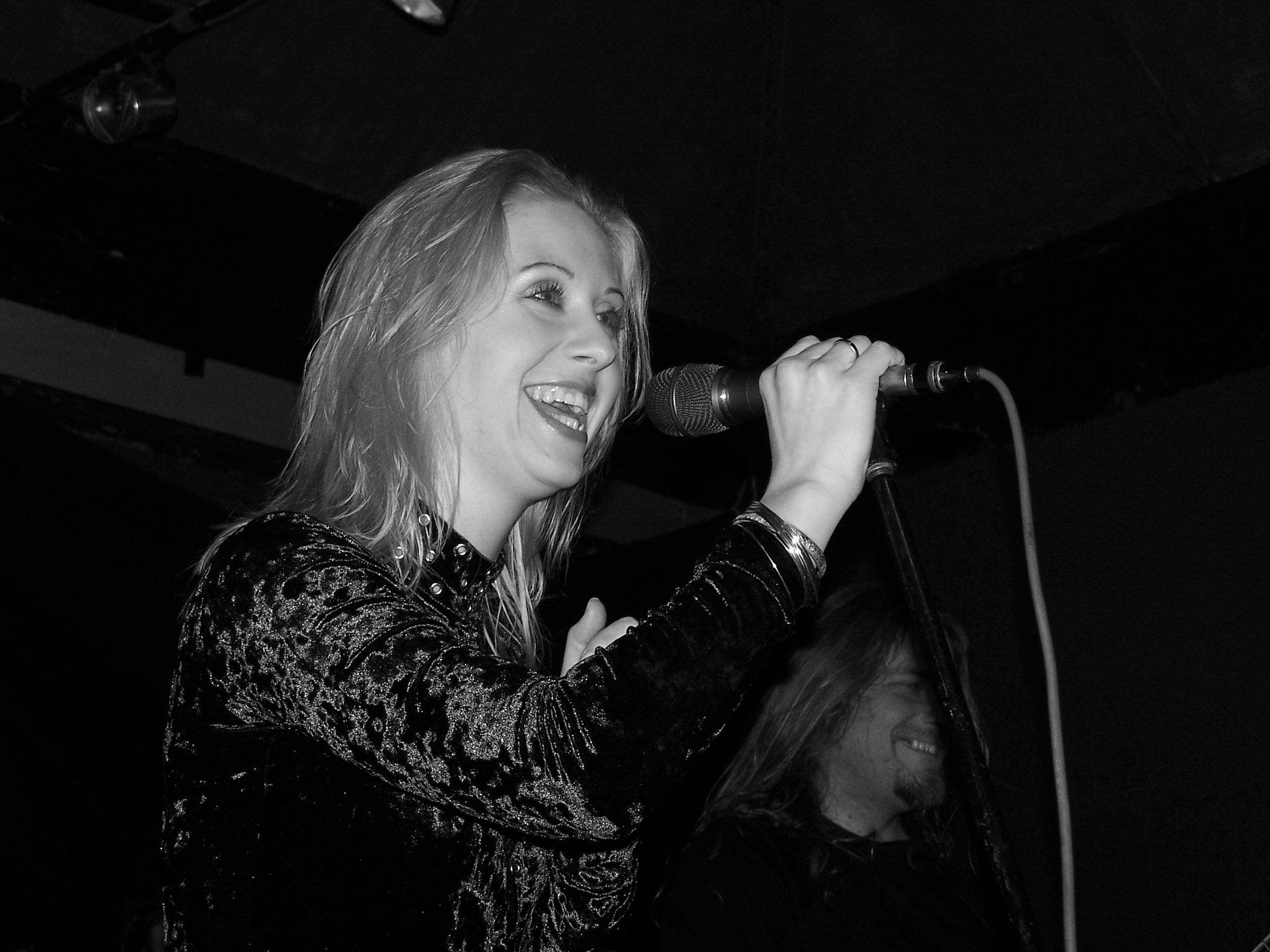 Magdalena "Medeah" Stupkiewicz from Polish rock band Artrosis.